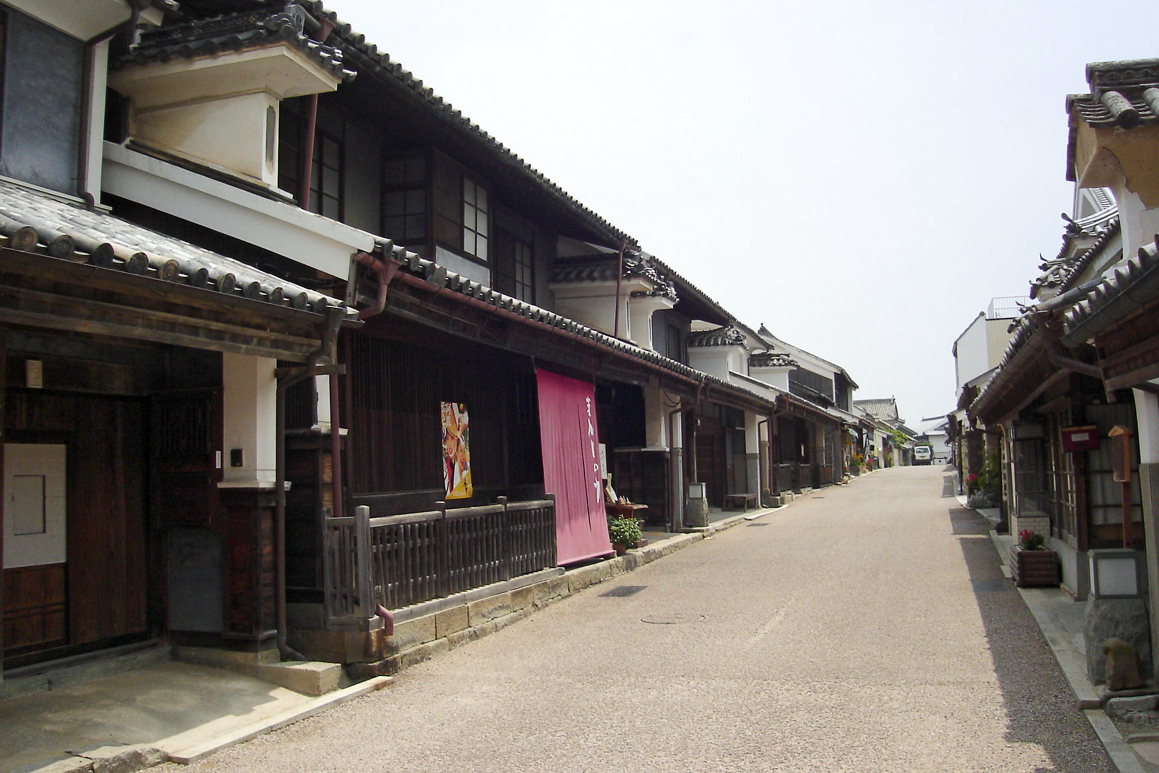 Wakimachi-Minamimachi in Mima, Tokushima prefecture, Japan. It is one of the Important Preservation Districts for Groups of Historic Buildings in Japan.